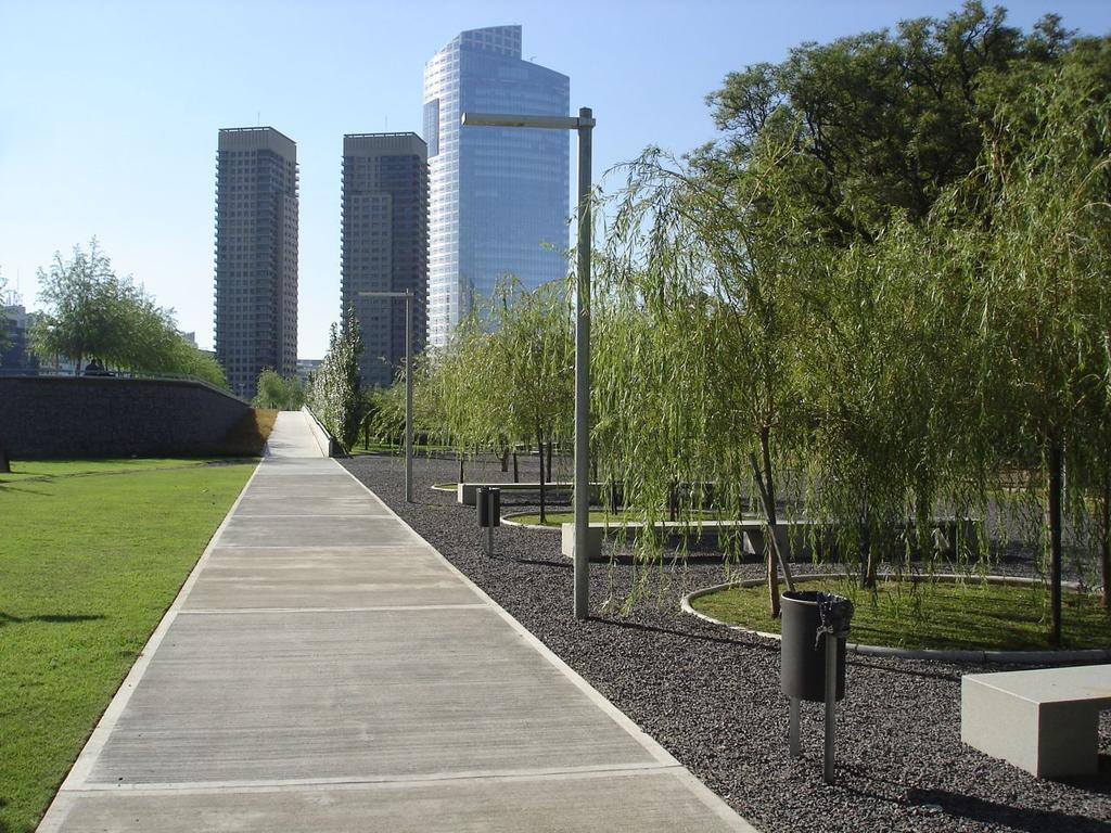 Park of the Argentine Woman, Buenos Aires.